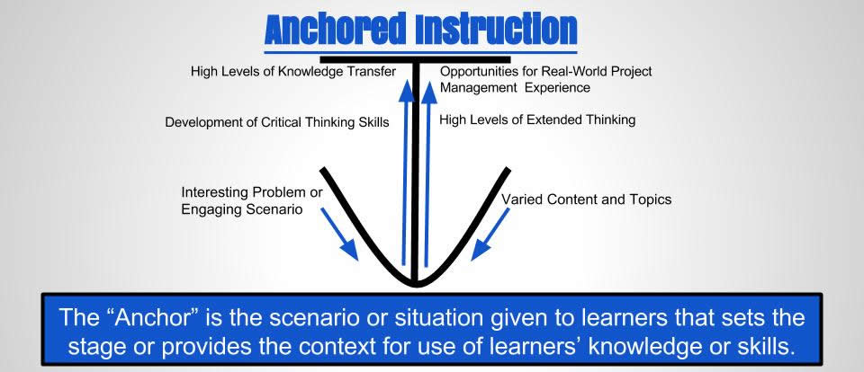 This image is of an actual anchor. The bottom curved part represents the meeting of an interesting problem or scenario as it involves various contexts and topics. The anchor activity is constructed of merging of the scenario and contexts. When this happens, the level of critical thinking skill development and knowledge transfer rises. Also, students extend their thinking and apply real-world project management skills to the scenario being studied. This is represented by the center section of the anchor which is directed with arrows pointing up, representing the rising level of student achievement regarding skill, knowledge transfer, extended thinking, and project management experience.